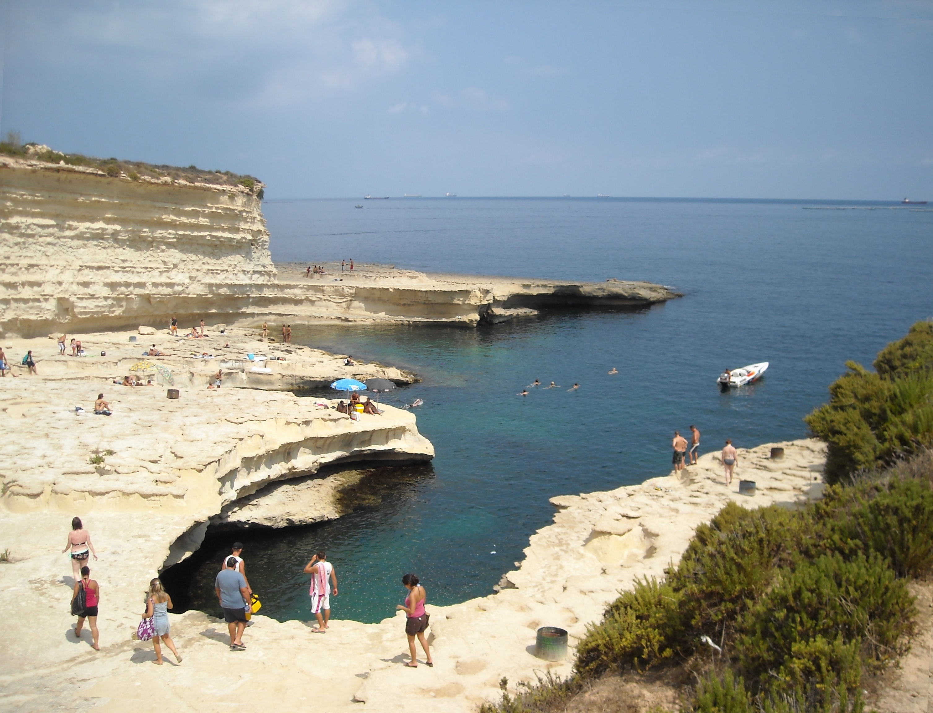 Saint Peter's Pool, Marsaxlokk, Malta